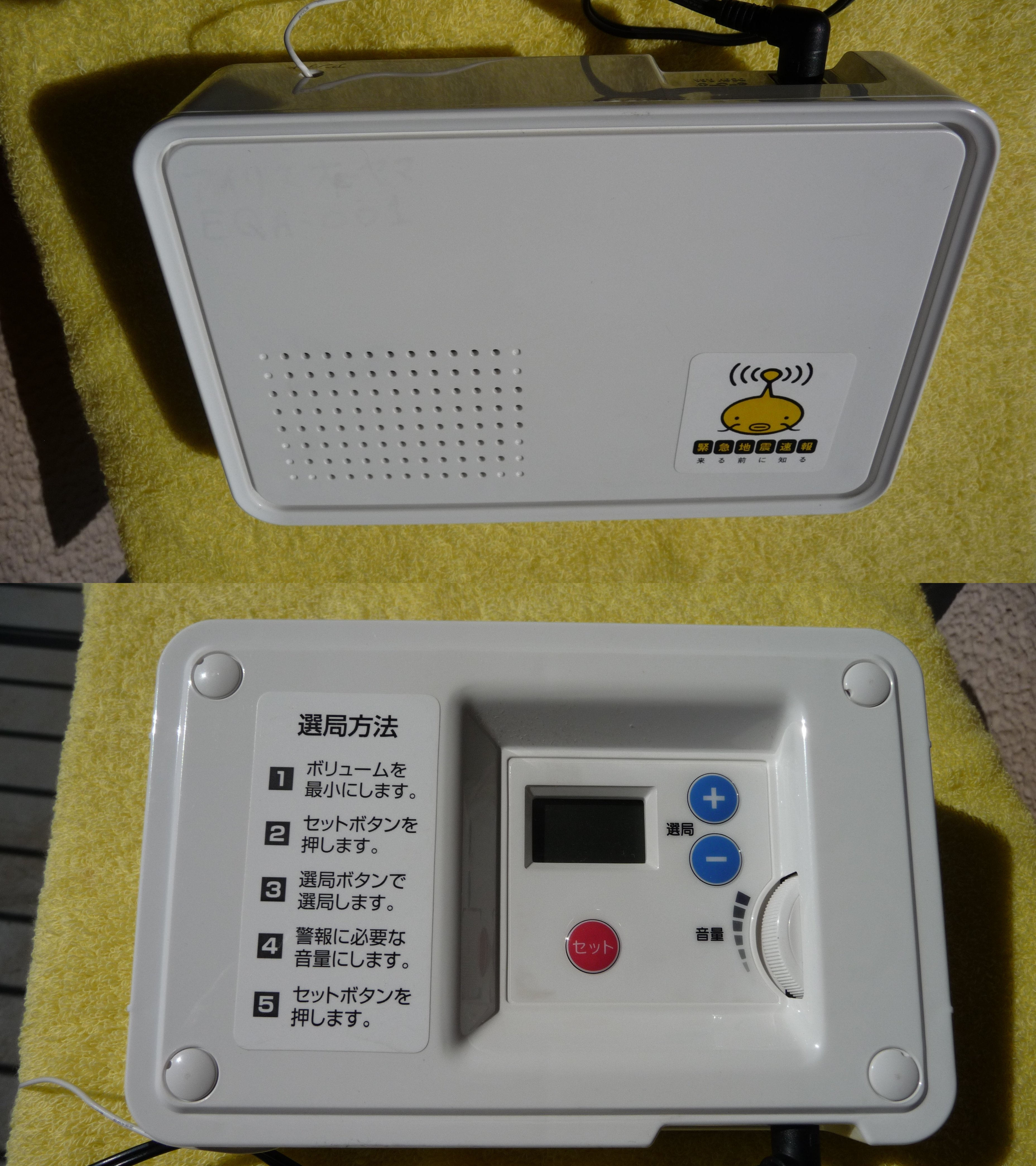 Earthquake Early Warning unit, FM radio type, Iris Ohyama, Model:EQA-001. Front view (upper), Rear view (Lower)